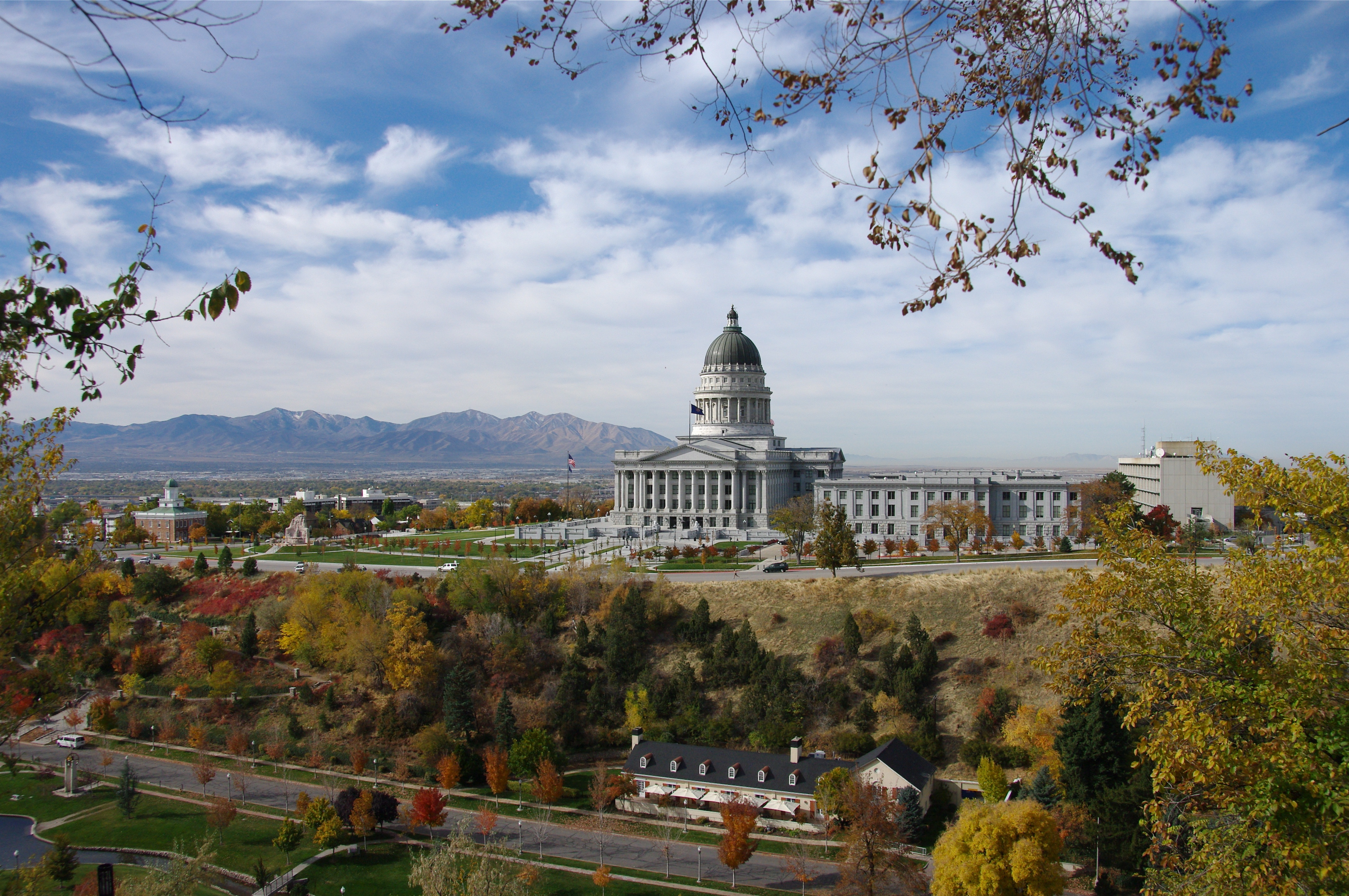 The Utah State Capitol Building, and Capitol Hill with other government buildings.